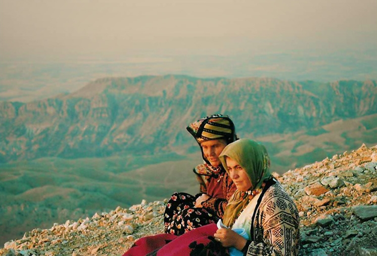 Top of the Nemrut Dagi - Turkey, 2002